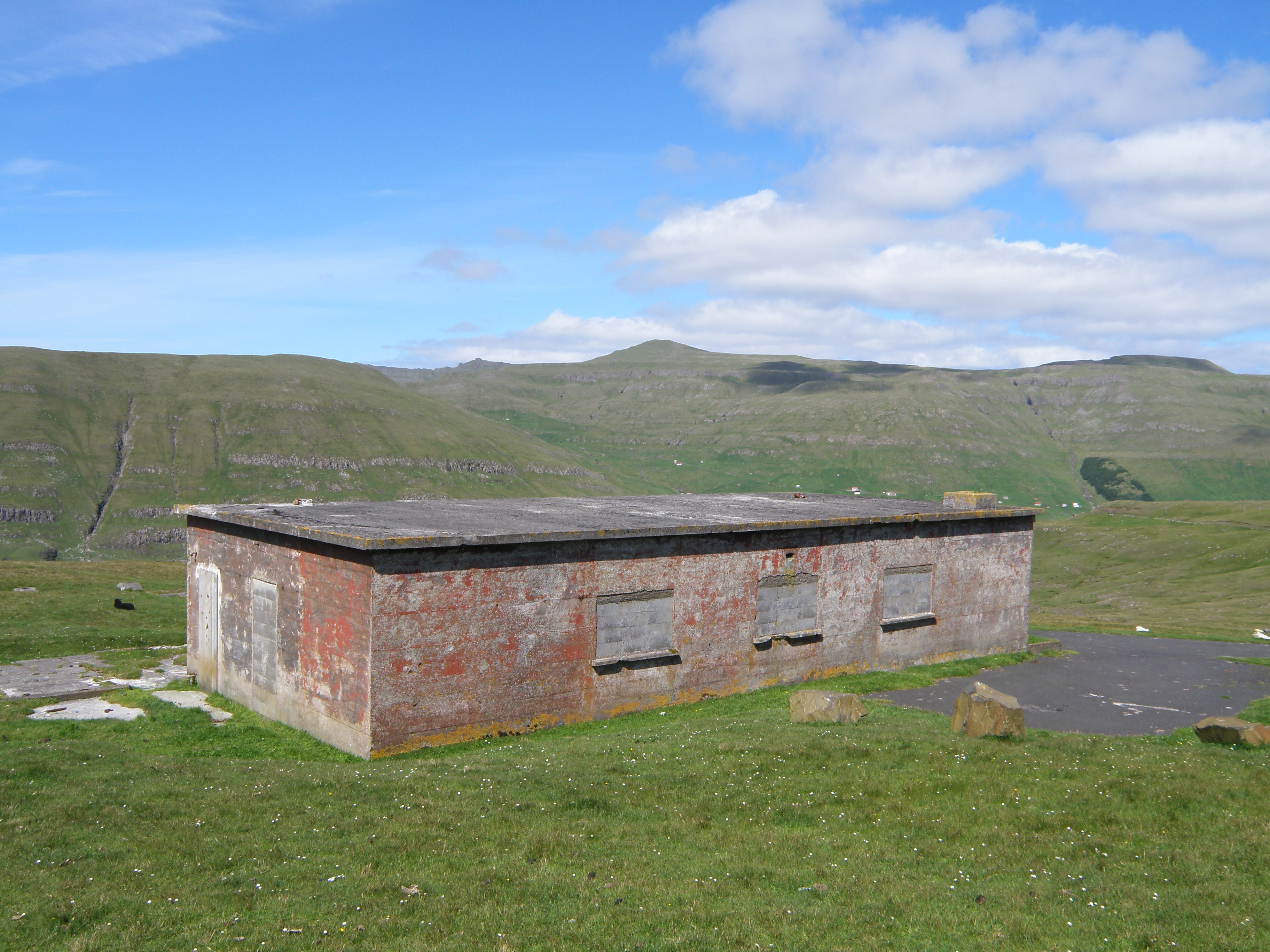 This is the remains of a British pillbox, made by the British Army during World War II. The Faroe Islands were occupied by United Kingdom, while Denmark (which the Faroe Islands belong to) was occupied by Germany. This place is called Eggjarnar or Skúvanes, the sea cliff is 204 meters above sea level; it is located on the west coast of the island Suðuroy, which is the southernmost of the 18 islands of the Faroes. This pillbox is just a few meters away from the edge. The cliff is vertical. The view on this photo is towards south. The mountains Gjógvaráfjall, Hvannafelli and Vágfelli are in the background. There is another pillbox on this place and the concrete remains of a gun pit are just a few meters away. Føroyskt: Eggjarnar eru 204 metrar yvir havið. Hetta staðið er beint sunnanfyri Vág. Bygningurin er ein leivd frá Seinna Heimskríggið. Fjøllini hinumegin eru Gjógvaráfjall, Hvannfelli og Vágfelli. Nøkur hús í Vági síggjast og ovari partur av Viðalundini í Vági sæst eisini.